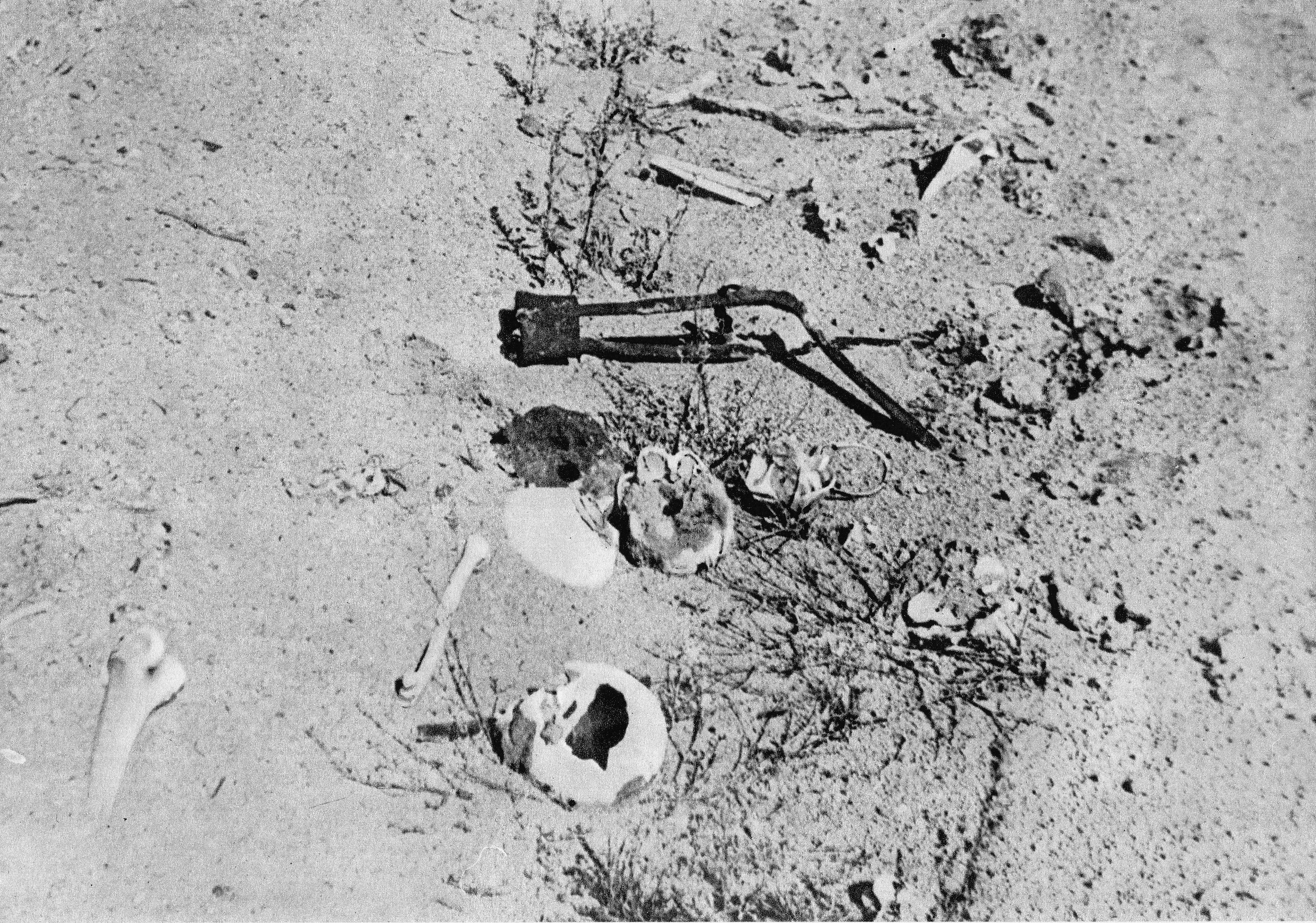 Former death camp at Treblinka in the summer of 1945